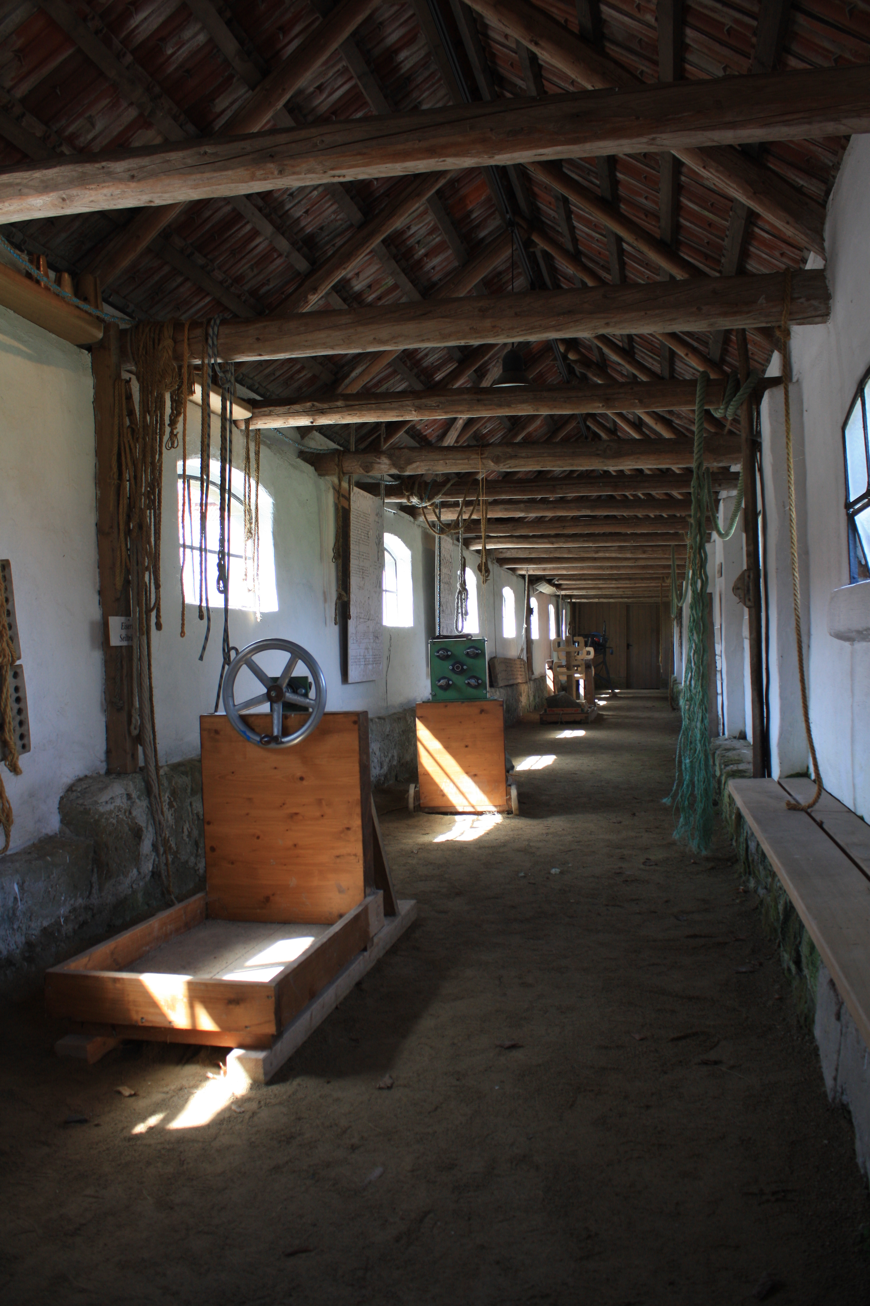 Reeperbahn im Handwerkerdorf in Rüthen A geocoded location could be added to this image. Visit Commons:Geocoding for information on how to add coordinates. Beta-test: Add coordinates helps to determine coordinates.